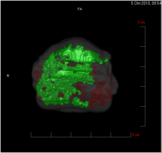 HistoScanning image threedimensional